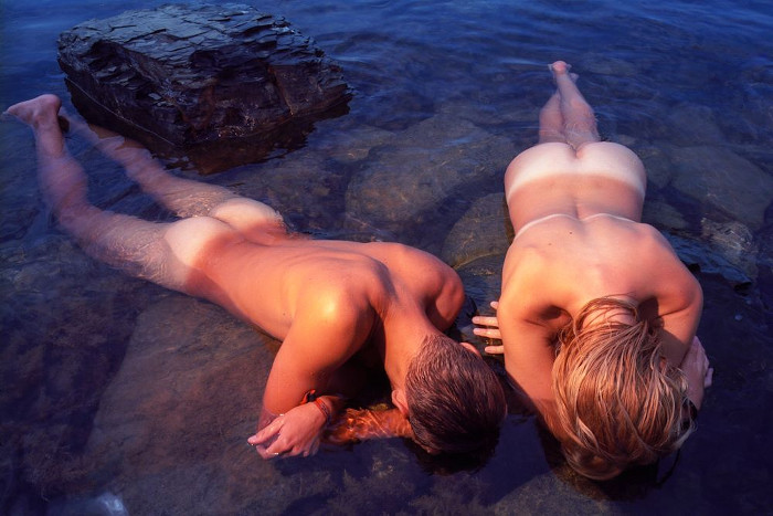 Photo by Nikita Shokhov from the series Black Sea. 2012